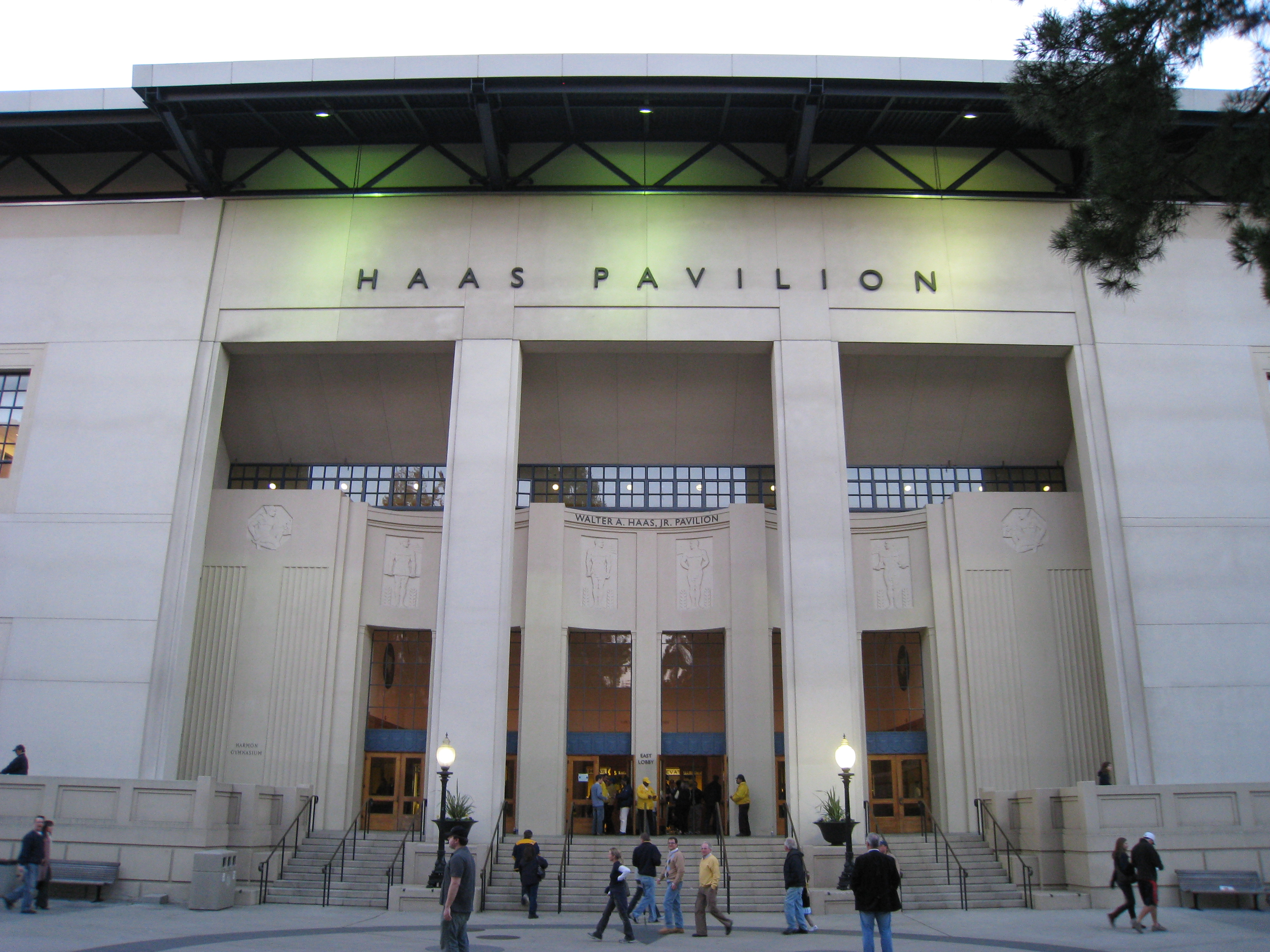 The exterior of Haas Pavilion on the UC Berkeley campus. Taken 1/19/08.